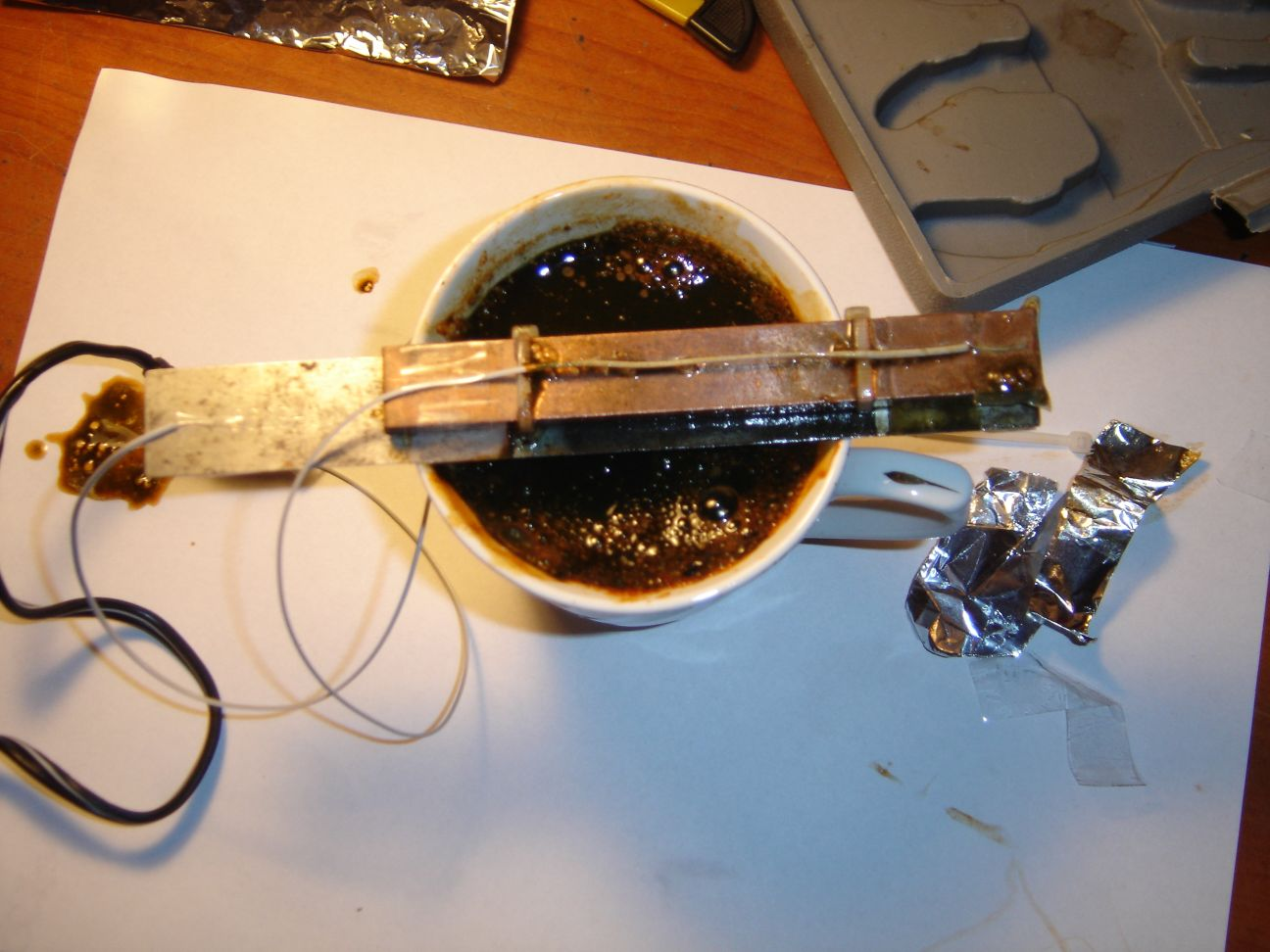 Buzała in action, a water heating device improvised by attaching two razor blades separated by matches and wires to the mains